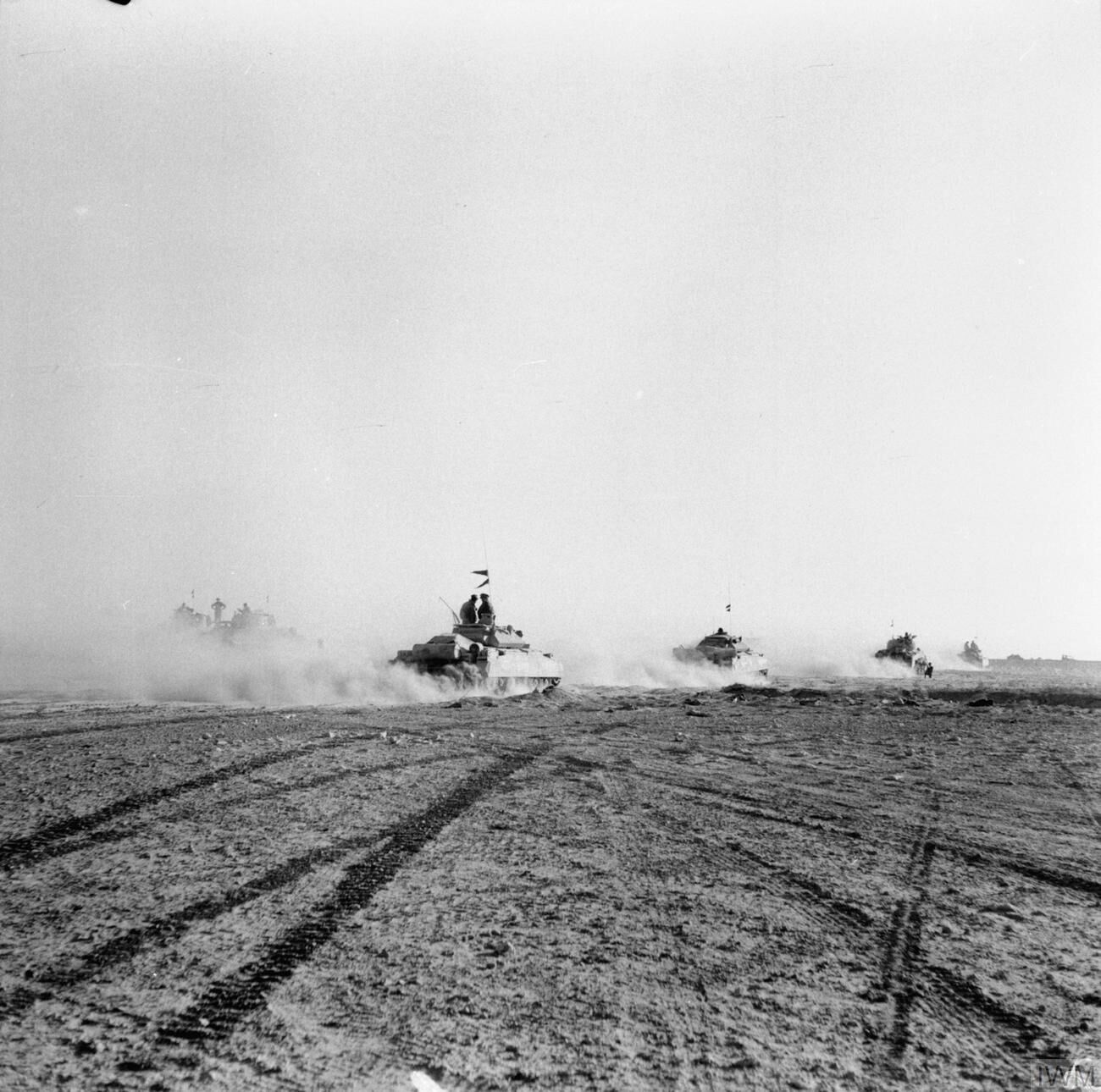 IWM caption : El Alamein 1942: British tanks move up to the battle to engage the German armour after the infantry had cleared gaps in the enemy minefield.